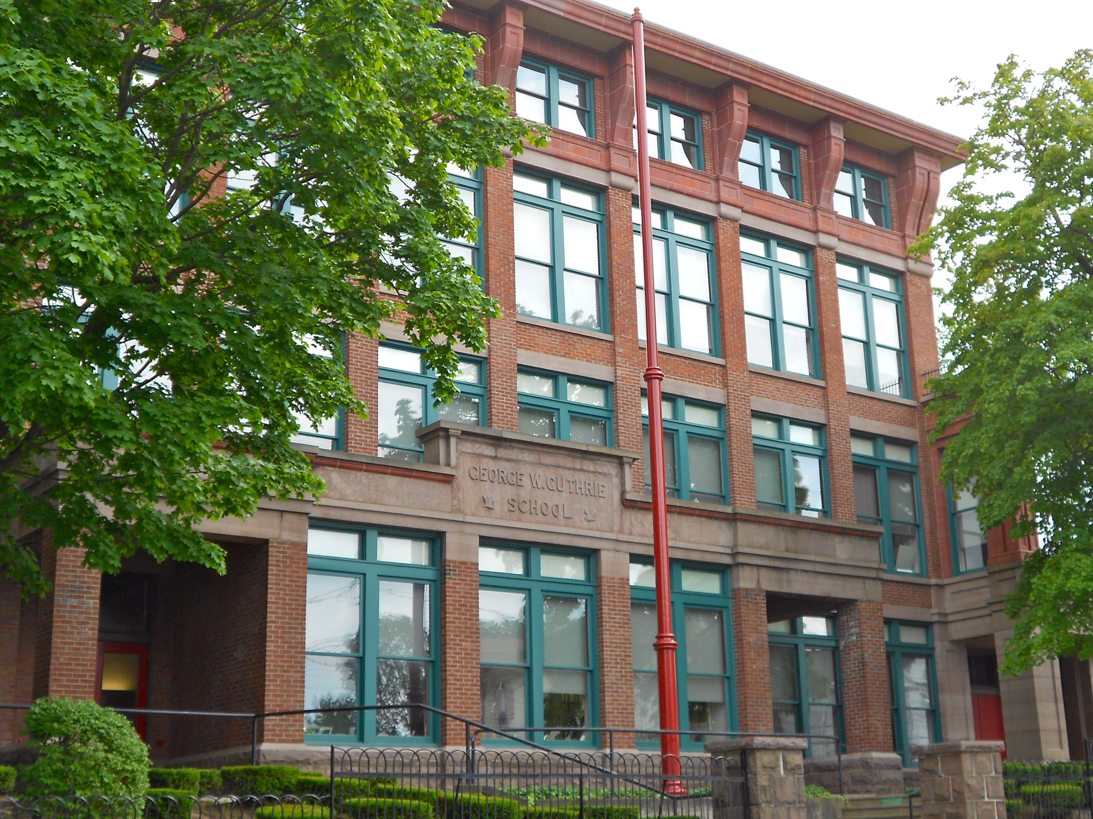 George W. Guthrie School, on the NRHP since June 27, 1980, at 643 North Washington Street, Wilkes-Barre, Luzerne County, Pennsylvania.